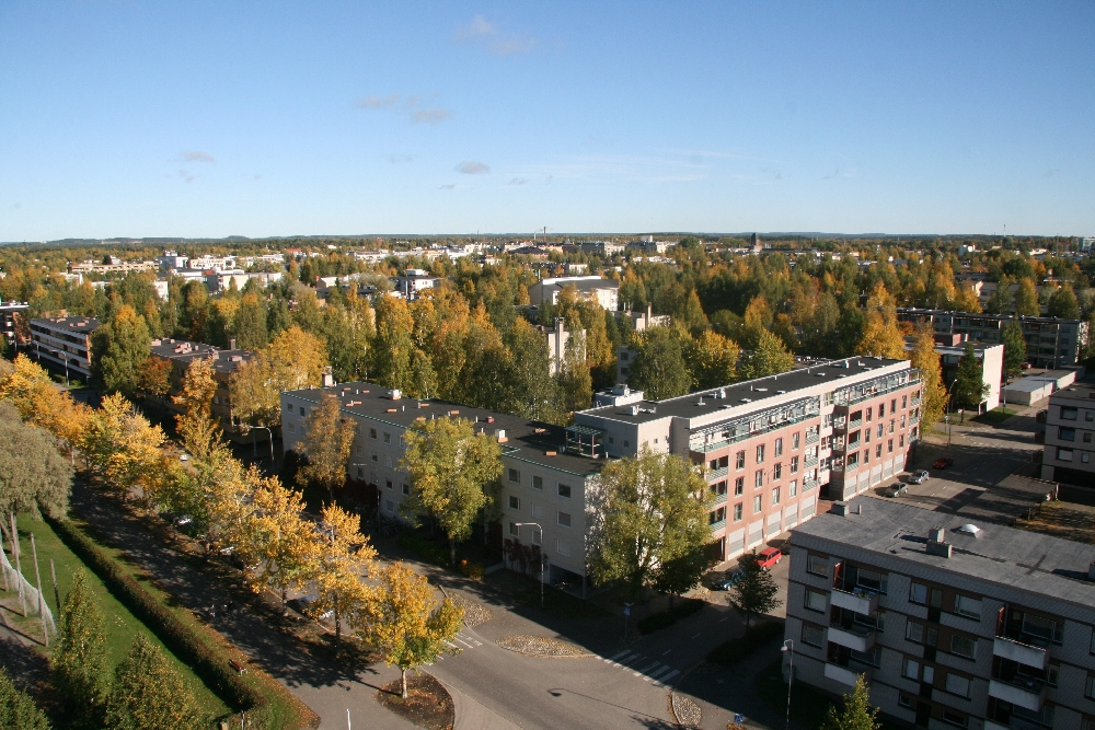 Joensuun Elli student house in Länsikatu Joensuu Finland